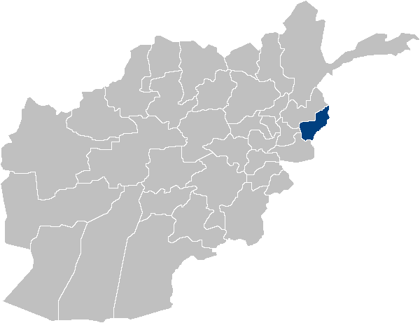 Location map for Kunar Province in Afghanistan. Original map source: Image:Afghanistan_provinces_blank.png